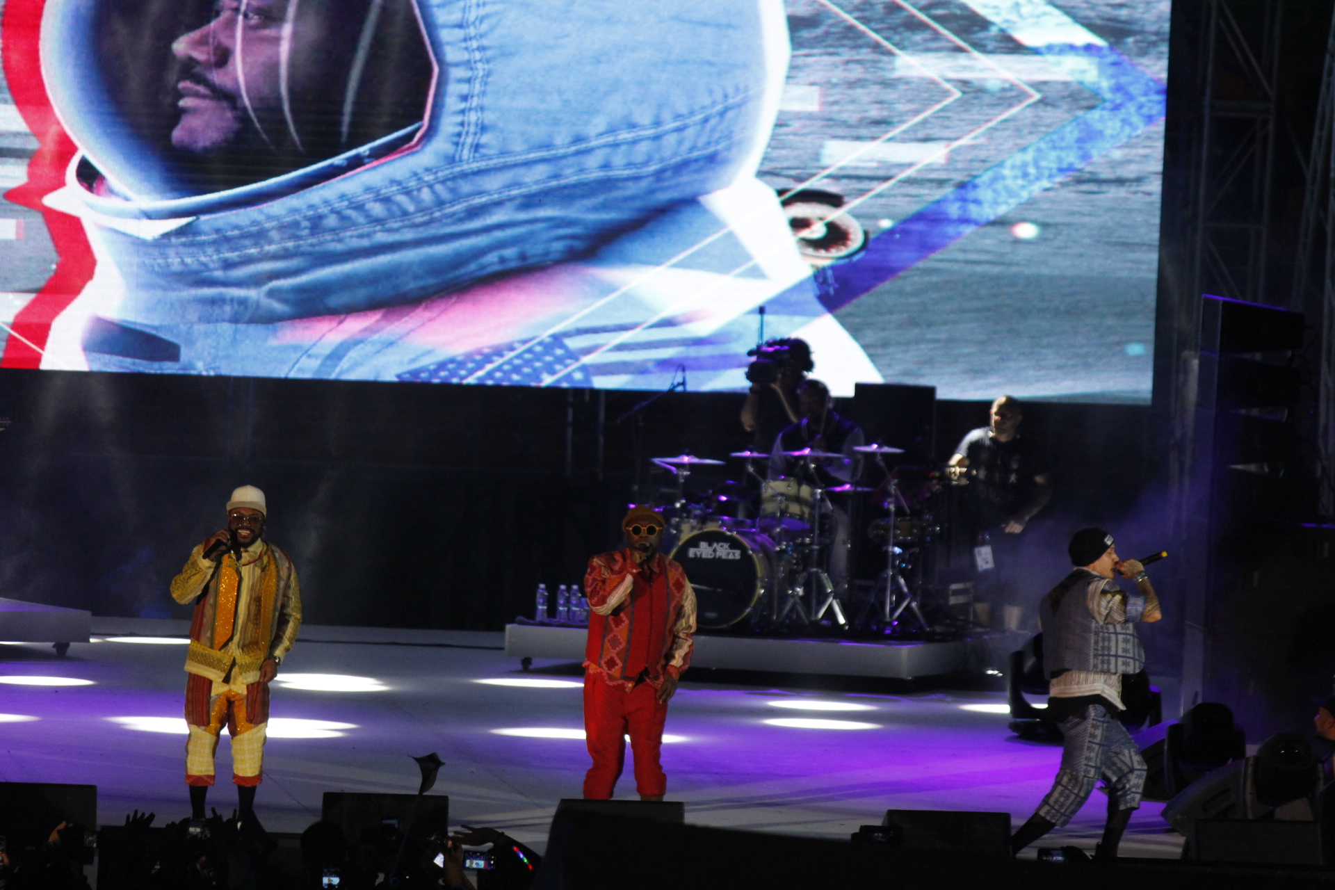 Black Eyed Peas perform at the Closing Ceremony of the 30th SEA Games. (Gabriela Liana S. Barela/PIA 3)